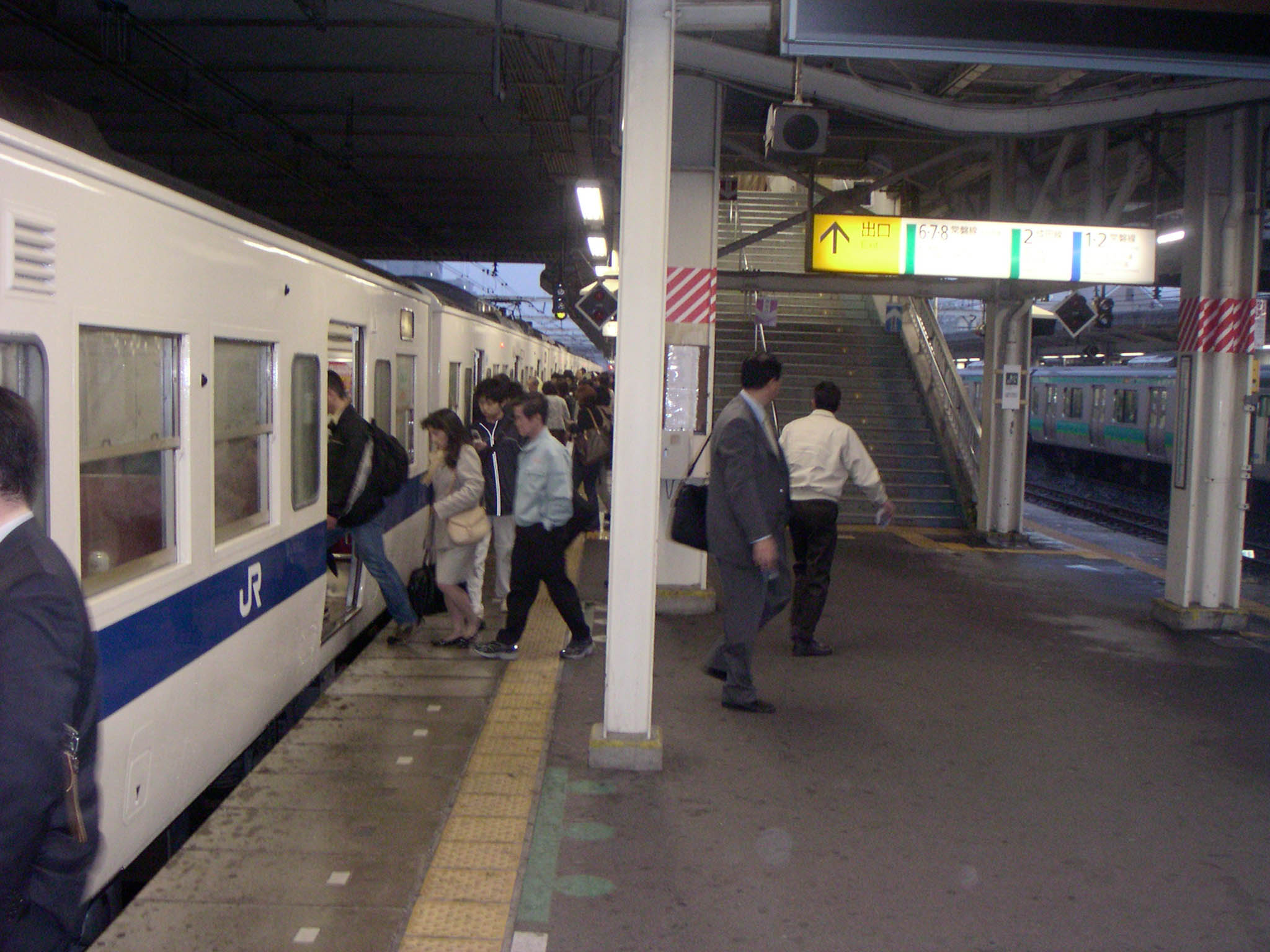 Abiko Station, Joban line platform Source: ph by っ May 2005 Copyrighted by っ